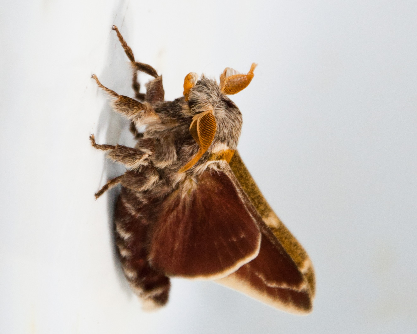 Freshly emerged adult, wings fully expanded about 6 minutes after emerging